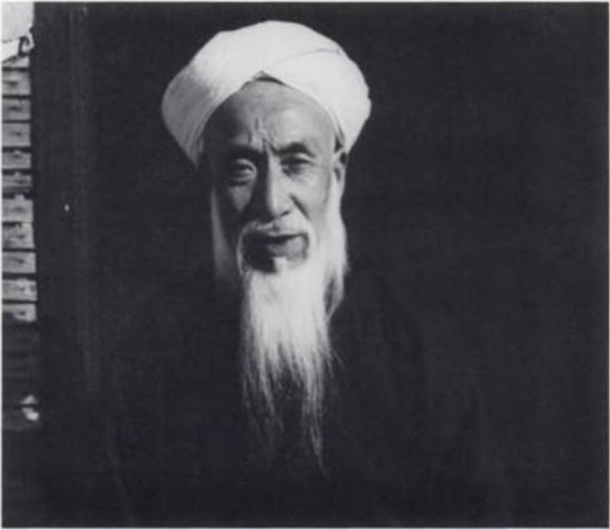 Ahong (imam) of a mosque at Guyuan, Gansu in the Republic of China.